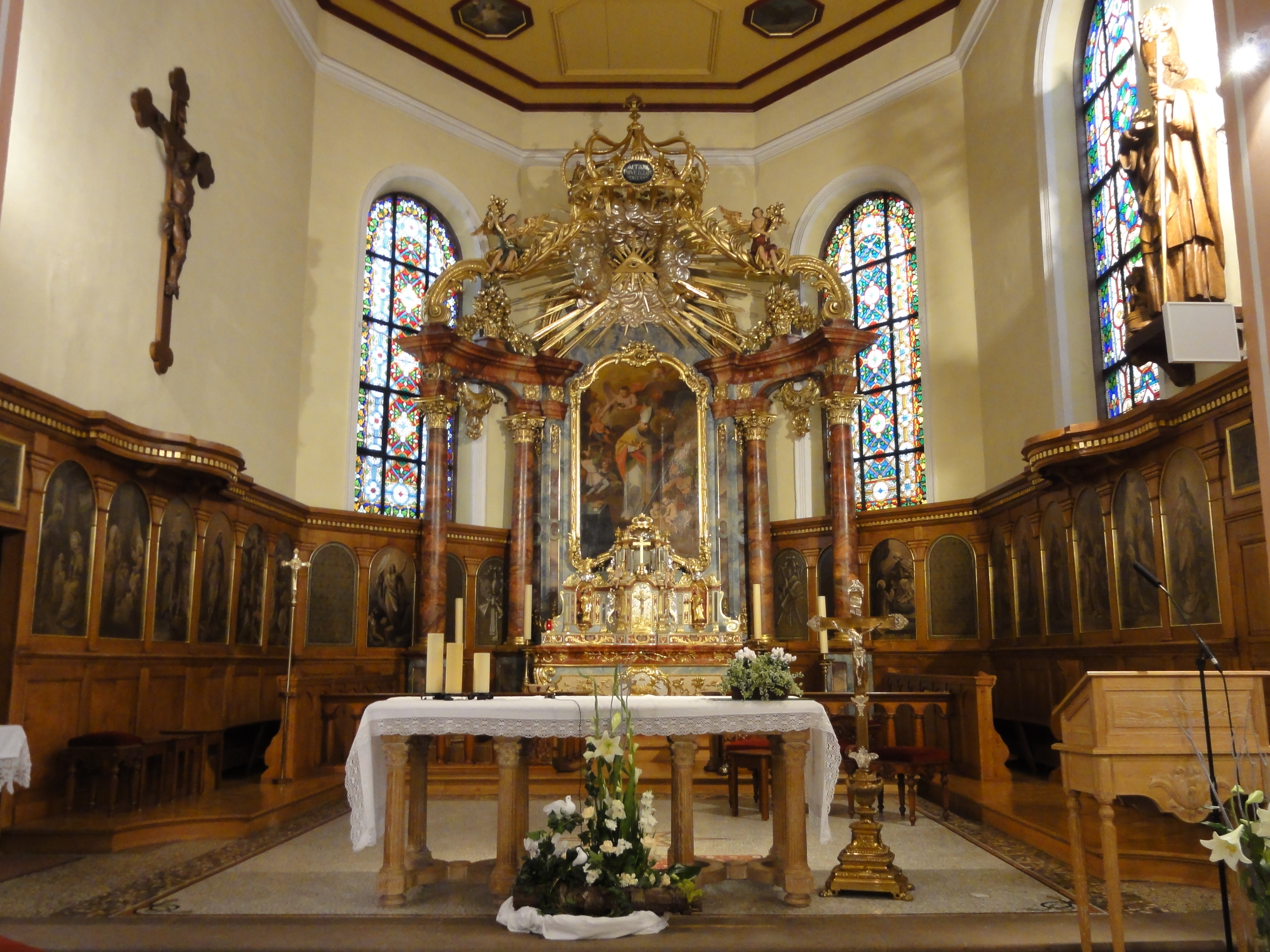 Alsace, Bas-Rhin, Stotzheim, Église Saint-Nicolas (IA00115472). Lambris de demi-revêtement du chœur (1875): This object is classé Monument Historique in the base Palissy, database of the French furniture patrimony of the French ministry of culture, under the references PM67000665 and IM67006043. Maître-autel (1773): This object is classé Monument Historique in the base Palissy, database of the French furniture patrimony of the French ministry of culture, under the references PM67000324 and IM67006038.